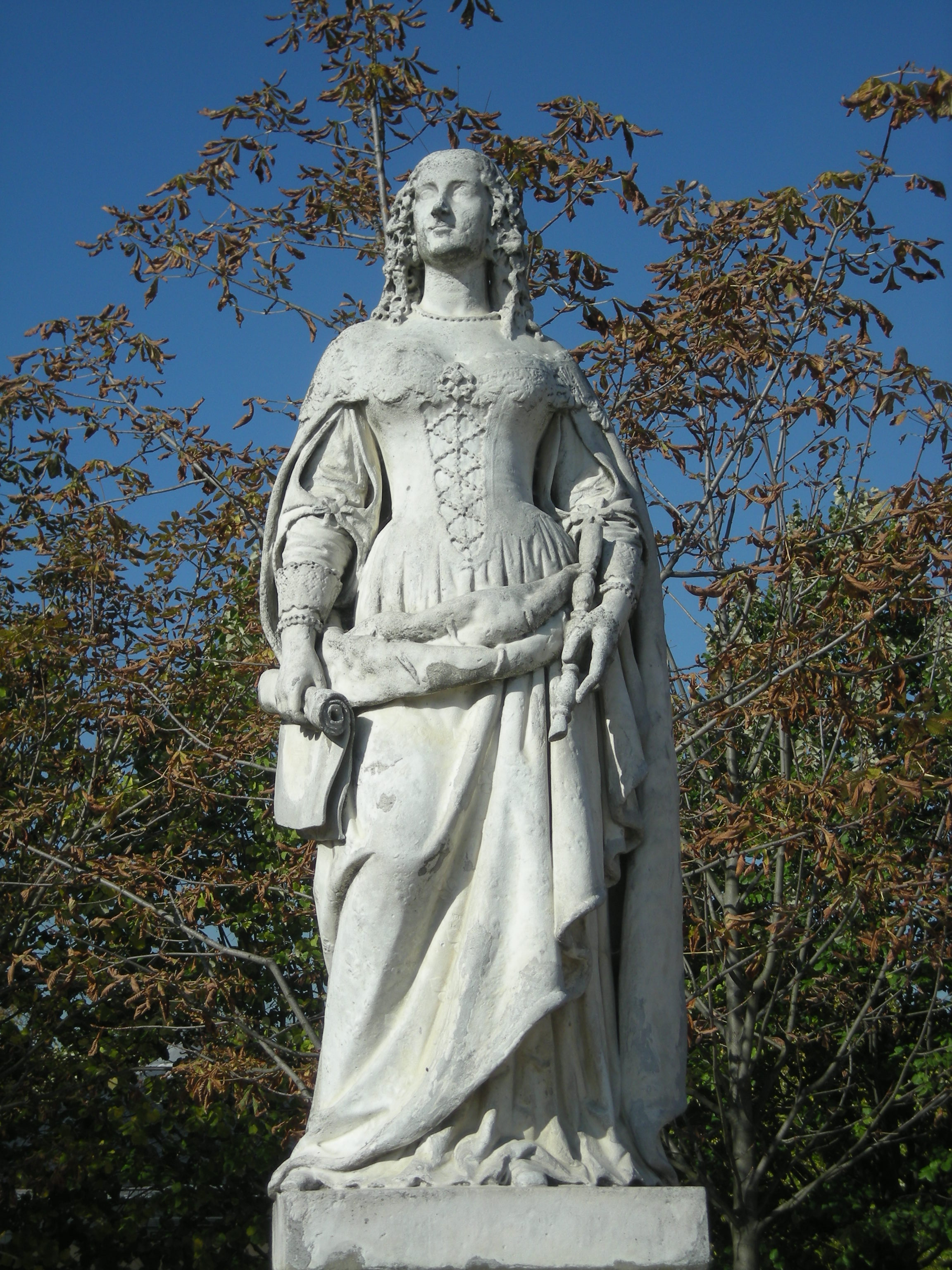 The Queens of France and Famous Women, a series of sculptures in the jardin du Luxembourg in Paris. It consists of 20 marble sculptures arranged around a large pond in front of the palais du Luxembourg.